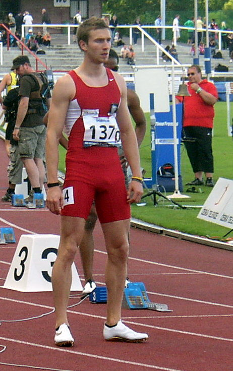 Athlete Josef Prorok of the Czech Republic before his start in men's 400 m hurdles race at 17th edition of the Josef Odložil Memorial (EAA Premium Meeting, Na Julisce Stadium, Prague, Czech Republic, 14 June 2010). Prorok ranked fifth in 50.64 s.